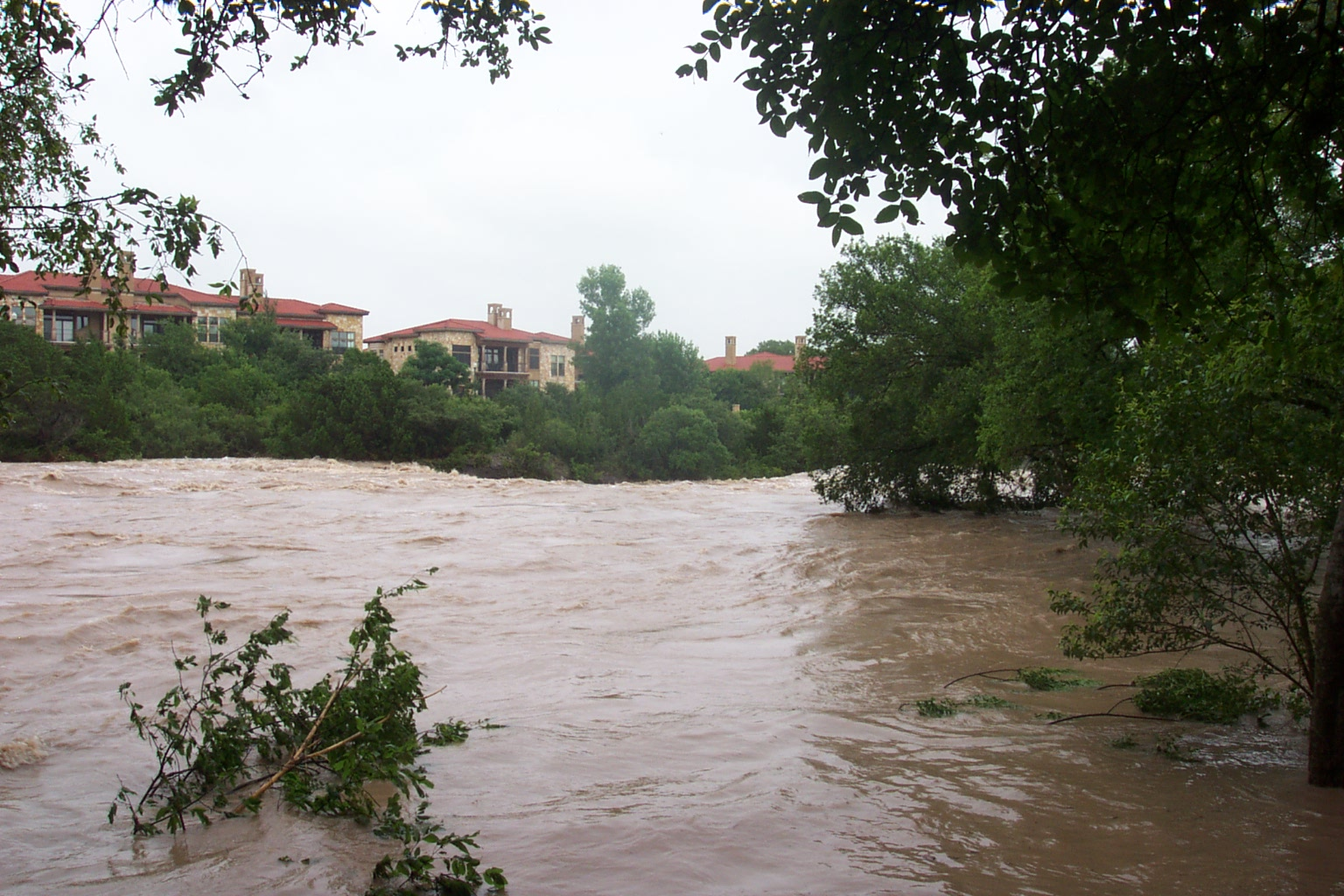 San Gabriel River (Texas) near Georgetown, Texas in Texas Hill Country.